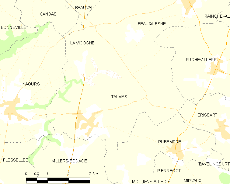 Map of French municipality Talmas